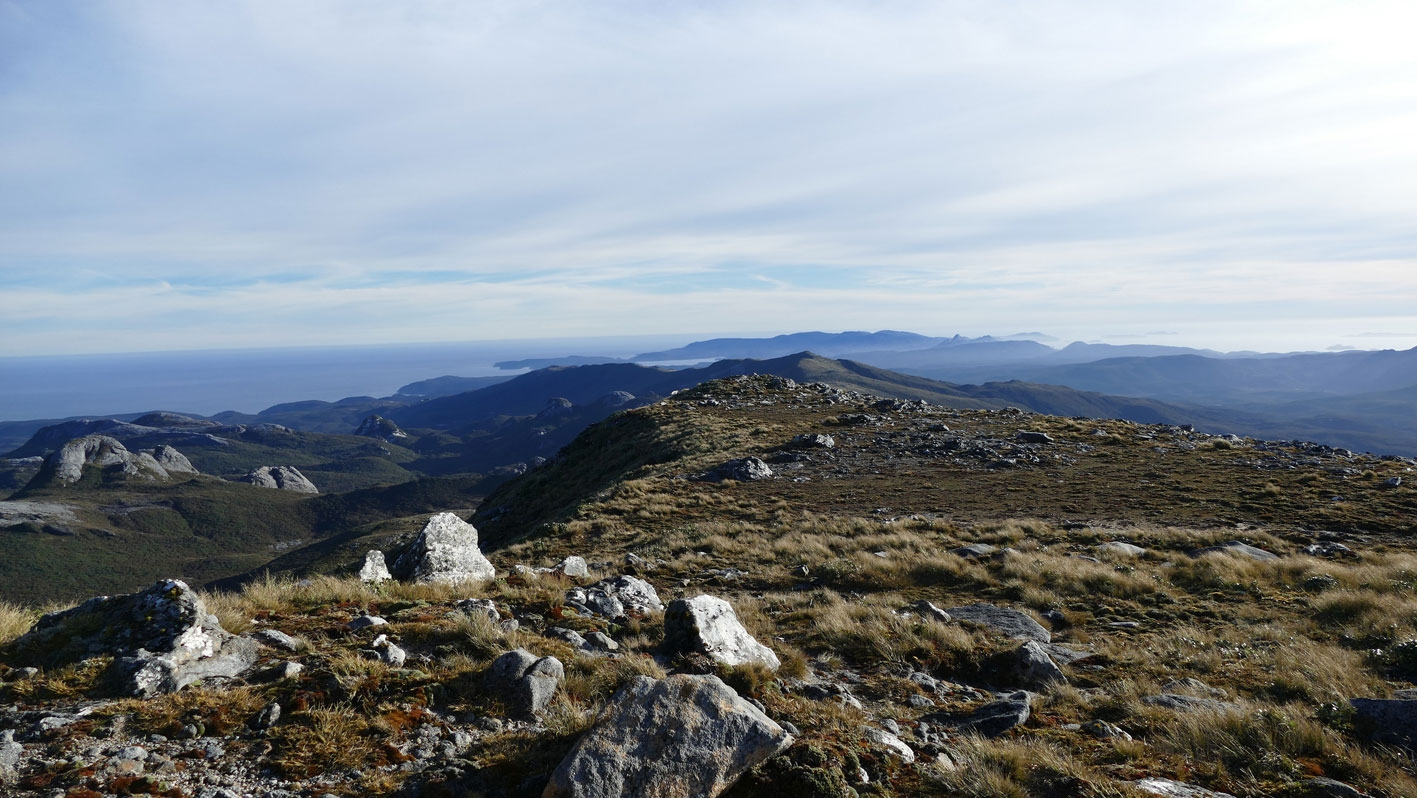 Mount Allen, Stewart Island, home of the Mt Allen buttercup